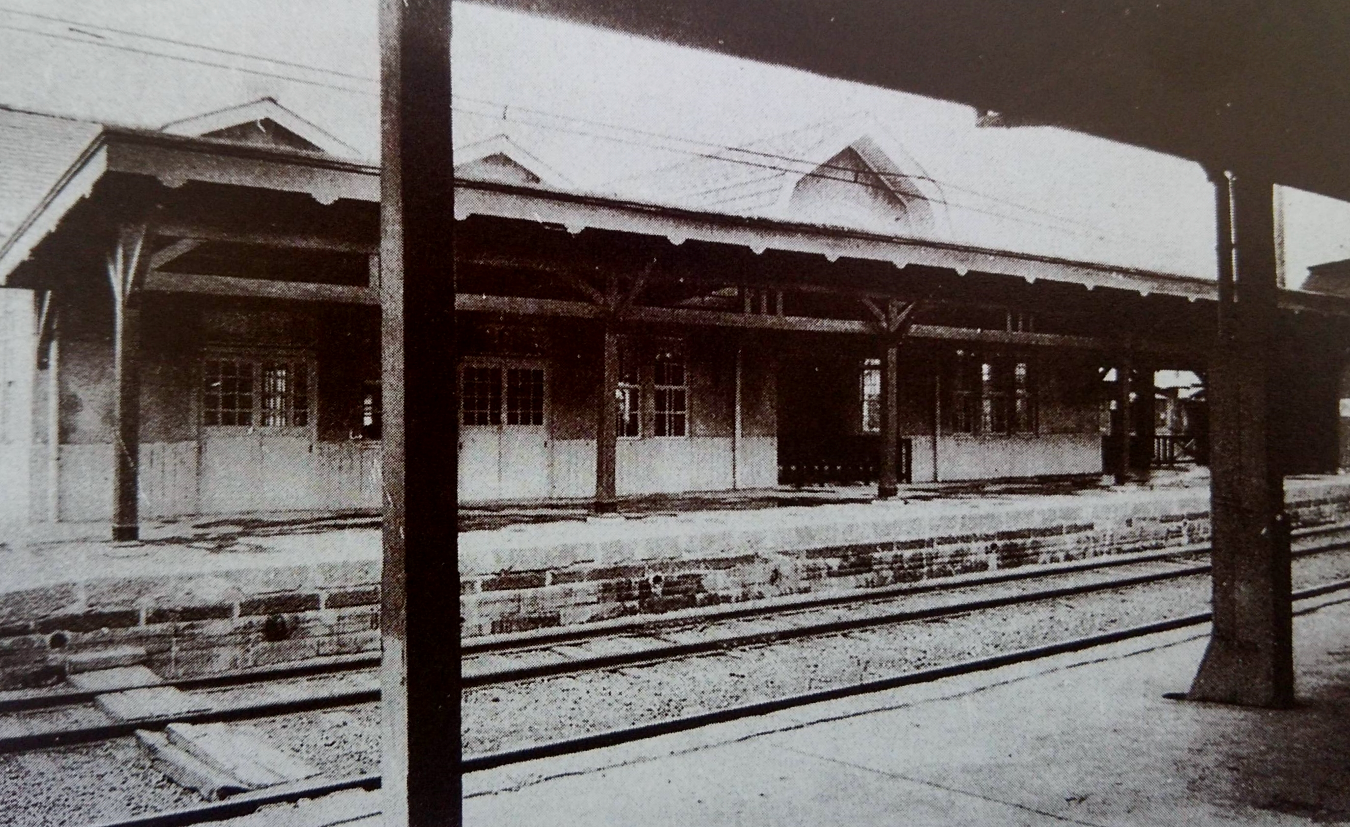 Fujisawa Station in Kanagawa Prefecture, Japan